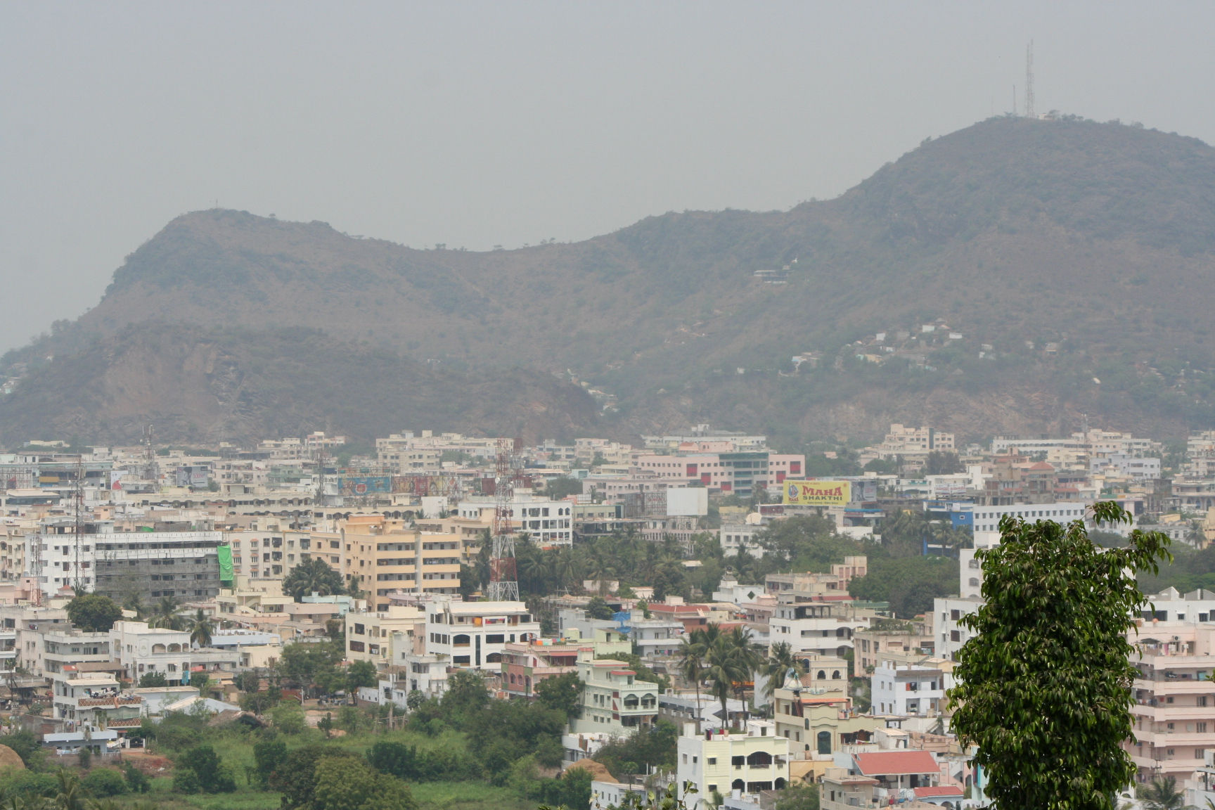 Skyline of 1-Town part of Vijayawada City